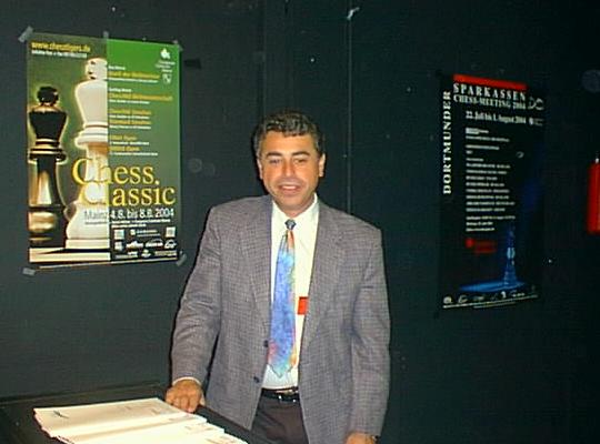 Yasser Seirawan, 2004 in the press centre of th Chess Days at Dortmund.